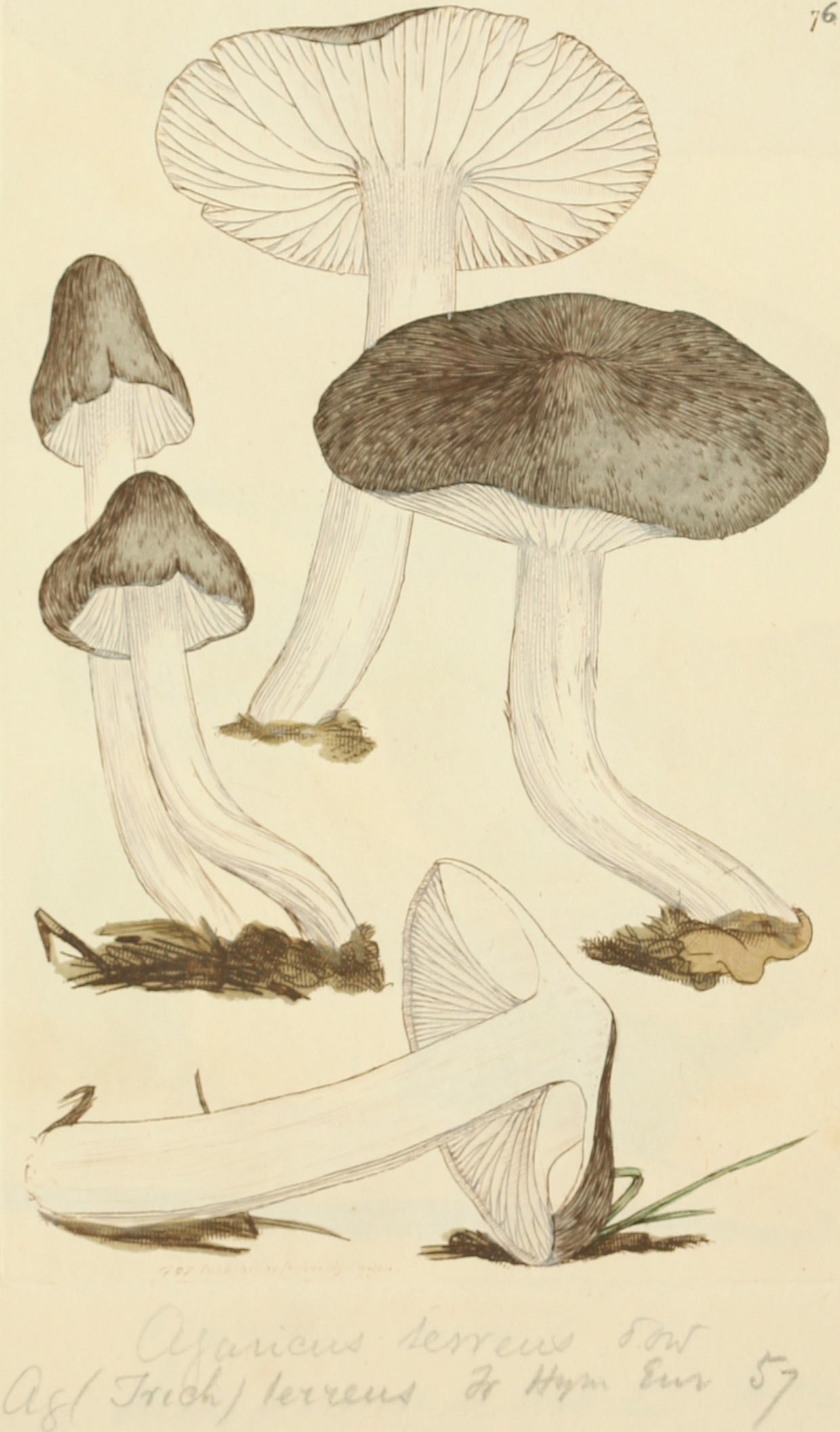 This is a plate from James Sowerby's Coloured Figures of English Fungi or Mushrooms.